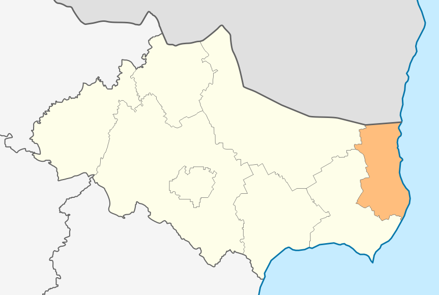 Map of Shabla municipality, Dobrich Province